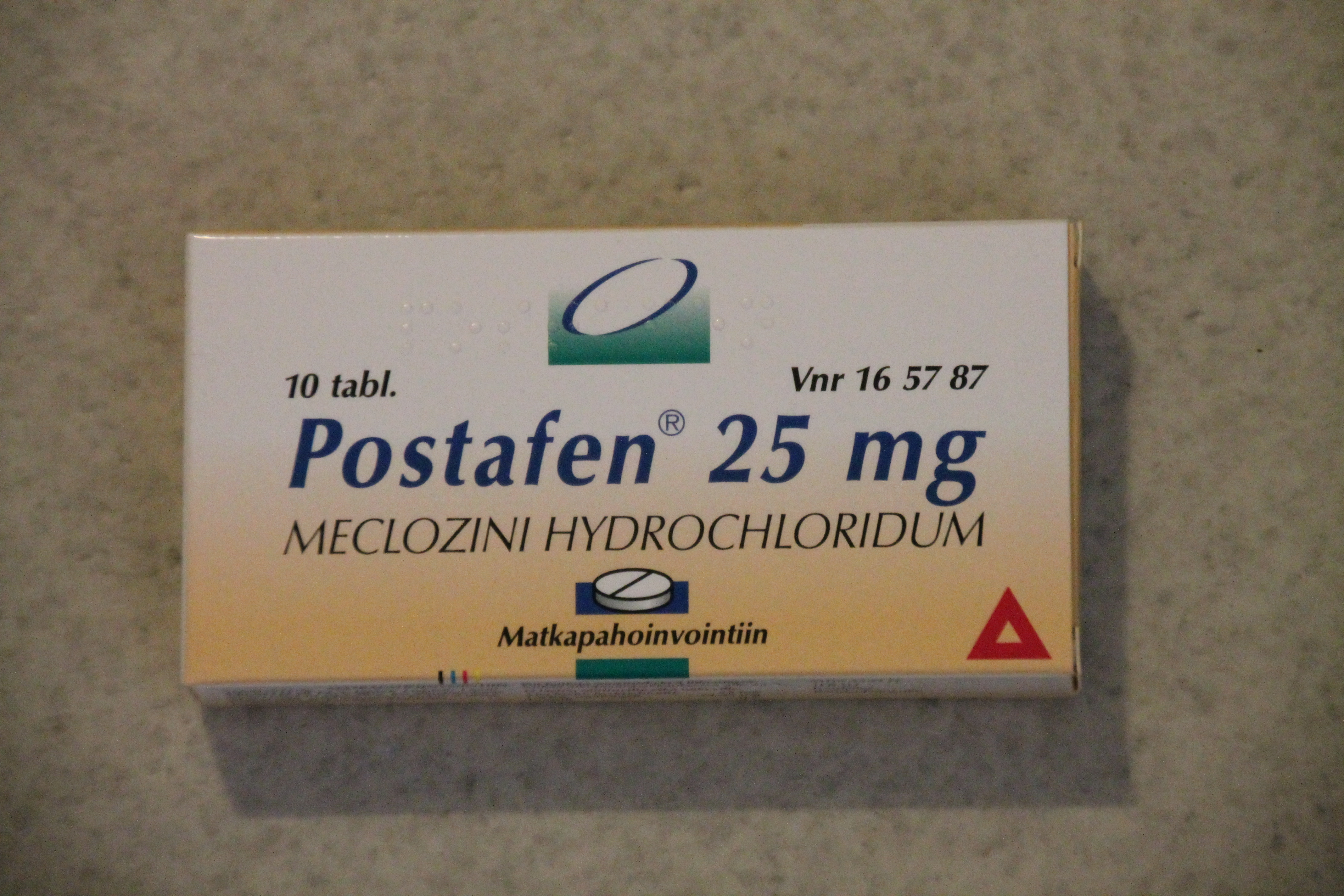 Postafen 25mg -meclizine pills.